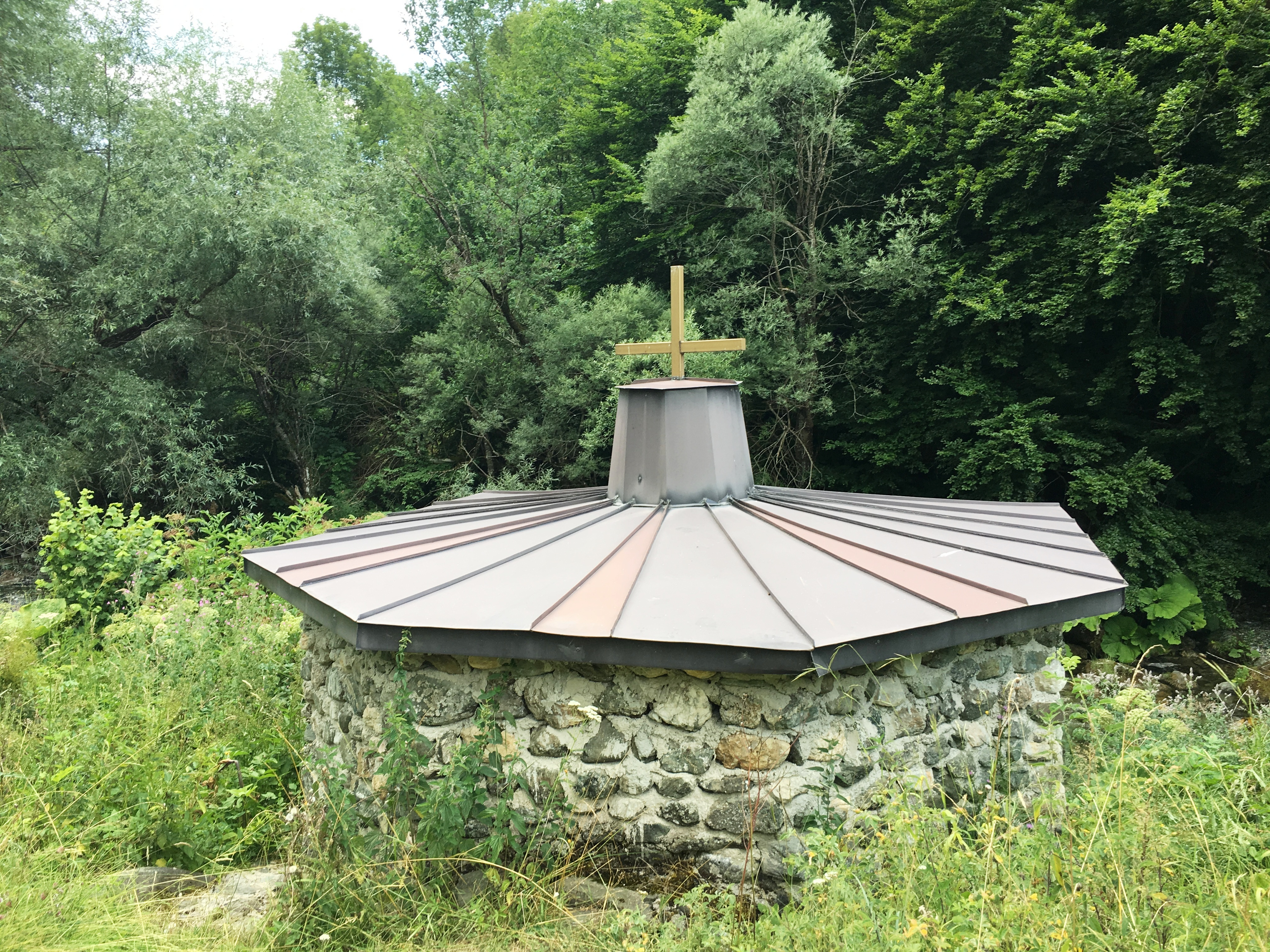 The religious complex Toplec near the village of Ničpur